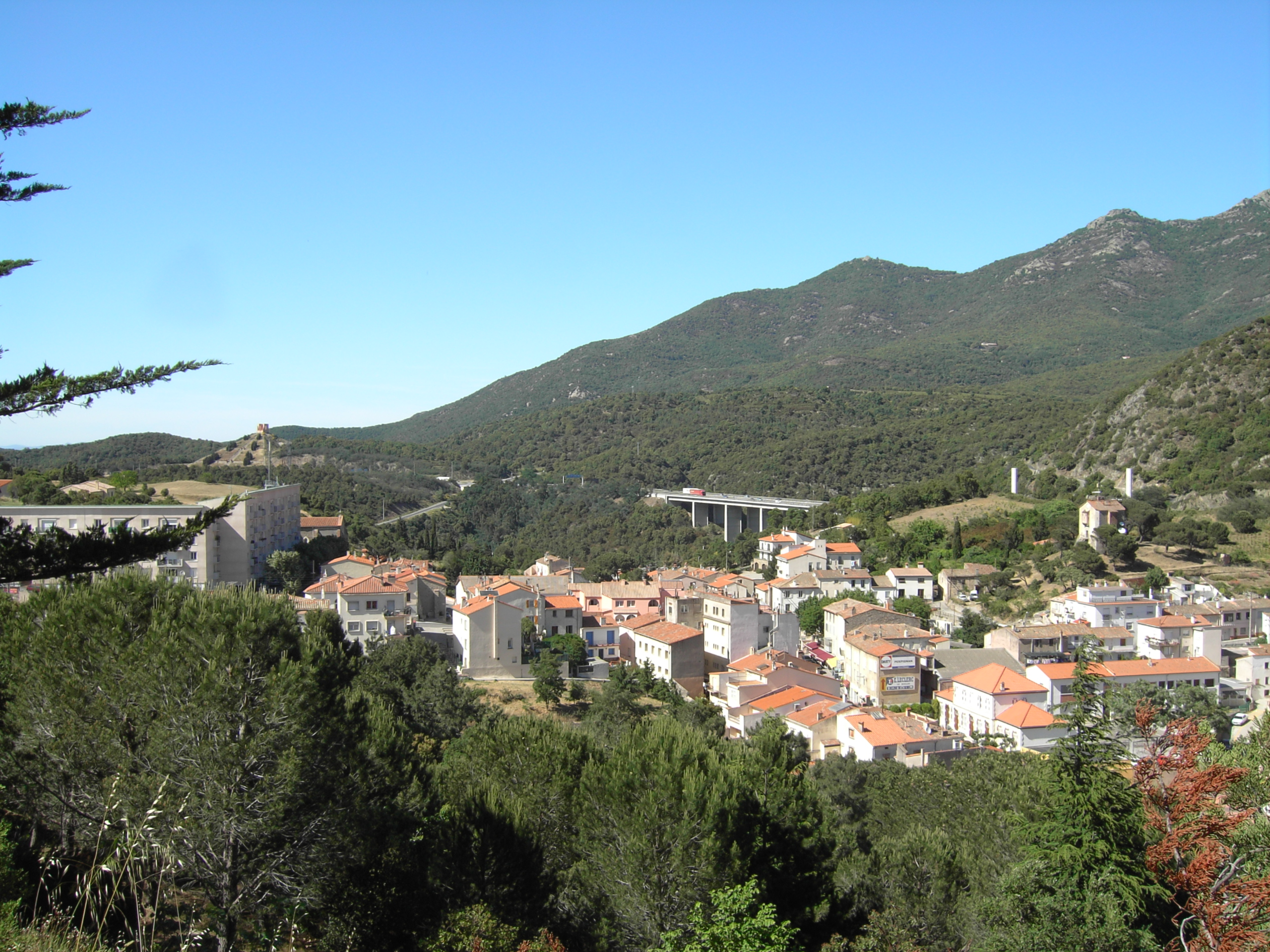 El Pertús, Spanish-French border, Catalonia